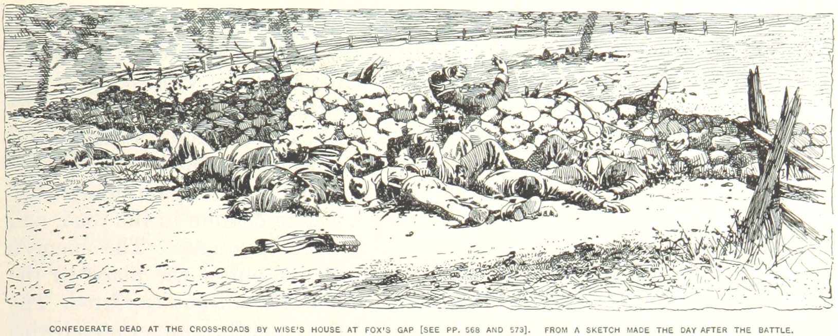 A sketch of Confederate dead at Fox's Gap after the Battle of South Mountain, 14 September 1862.